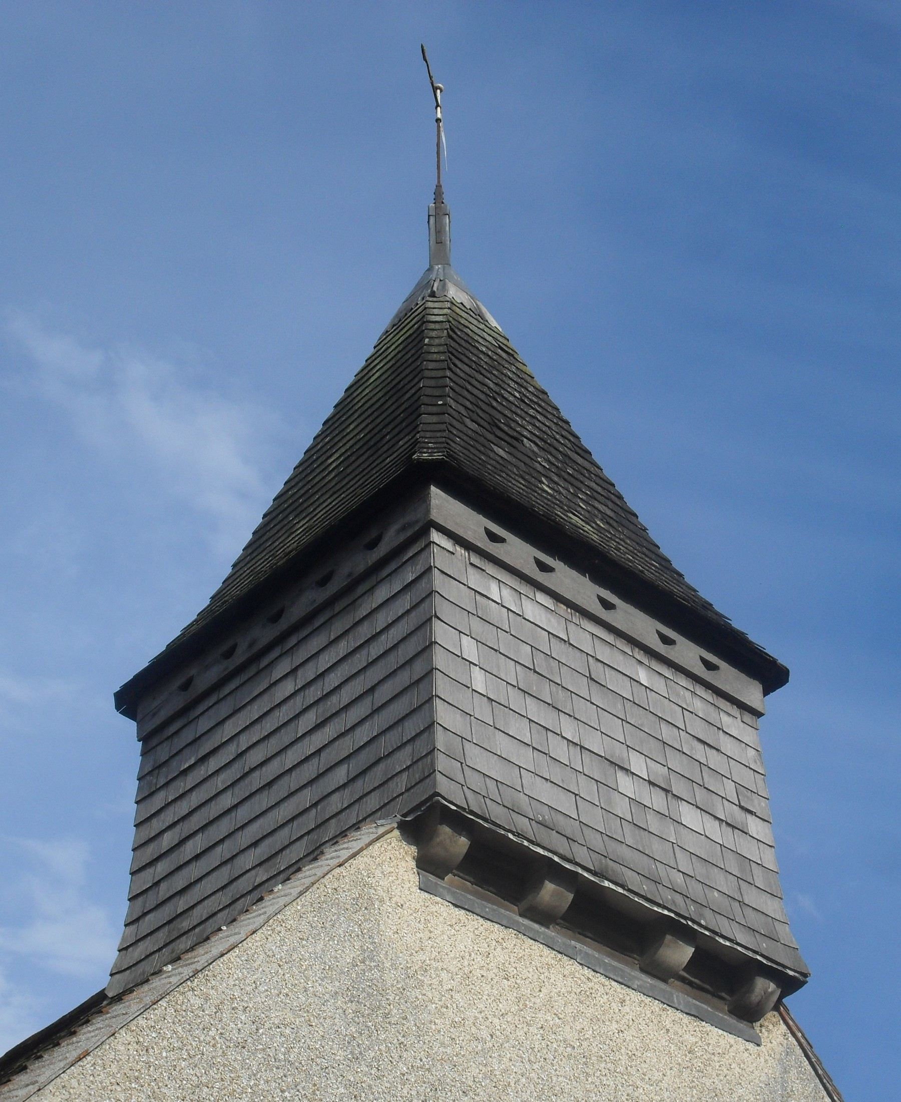 The shingled bell-turret at St George's Church, Eastergate, Arun District, West Sussex, England.